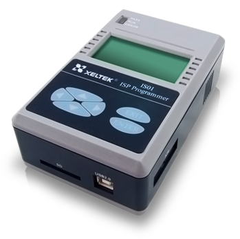 Xeltek SuperProIS01 In-System Programmer